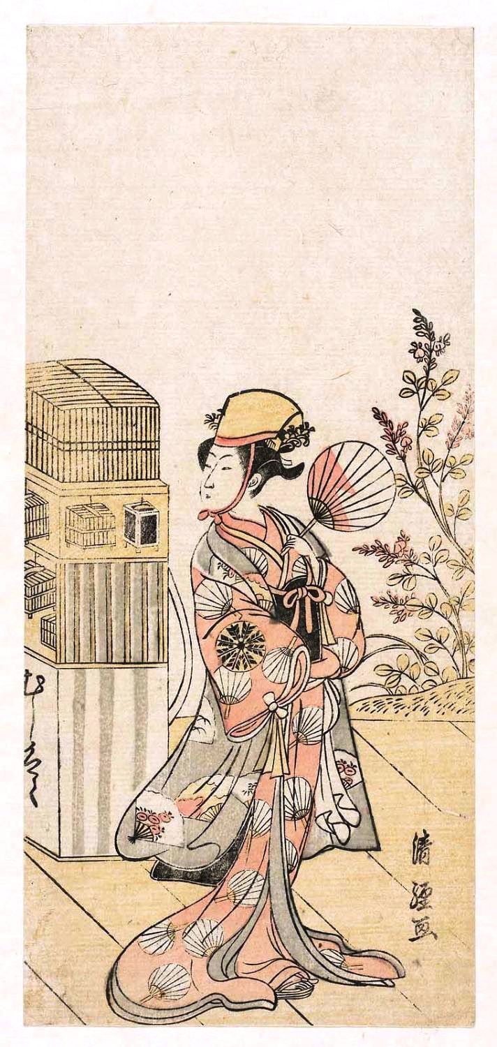 Ukiyoe (Japanese woodblock print) by Torii Kiyotsune, 1774. Actor Nakamura Tomijûrô as an Insect Vendor (Mushi-uri).